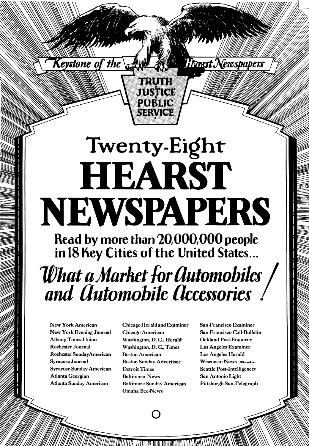 Ad for Hearst Newspapers. It likely dates from between 1929 and 1931, as it lists both the San Francisco Call-Bulletin (formed 1929) and the Los Angeles Herald (known as such until 1931).